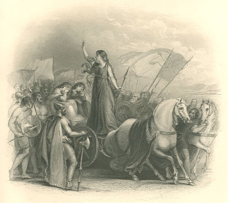 Boudicea haranguing the Britons